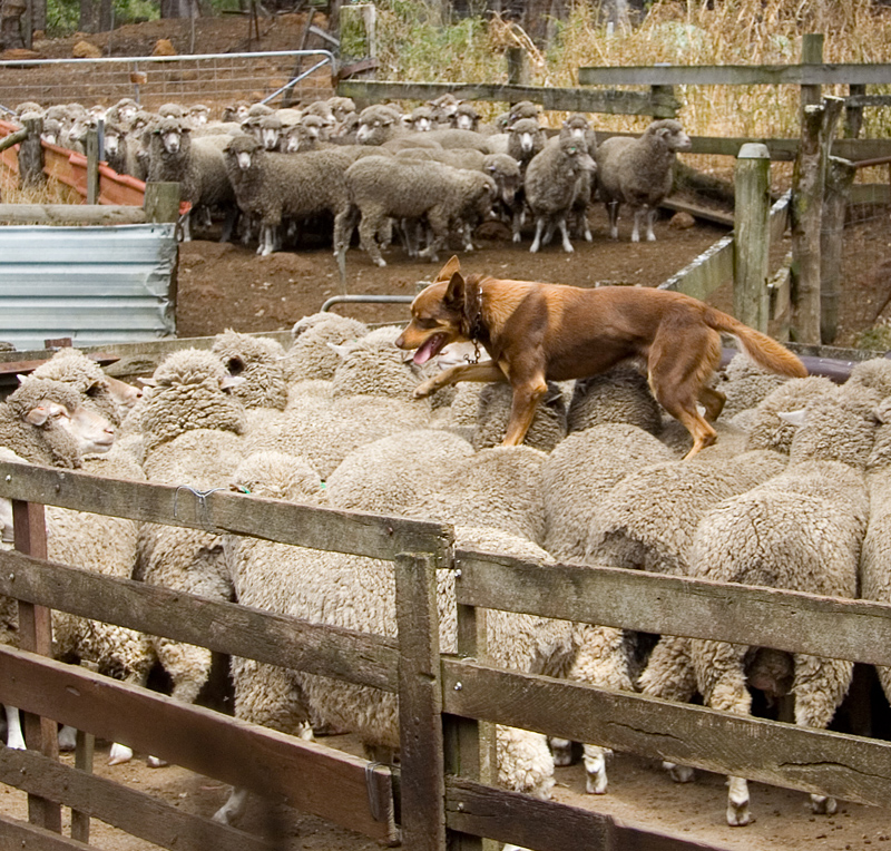 Australian Kelpie walking across the backs of sheep, The Shearing Shed, Yallingup, Western Australia